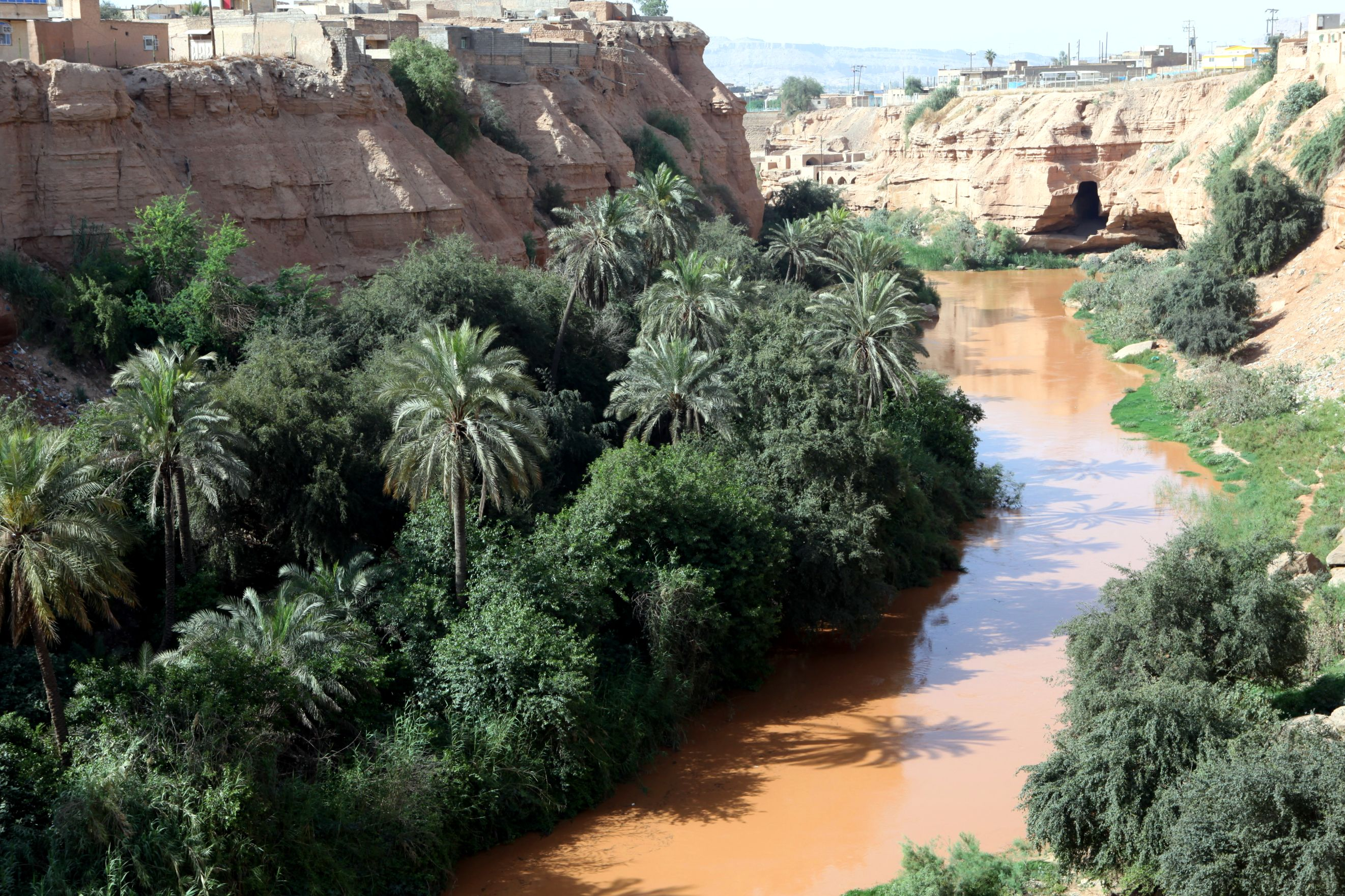 Shushtar, Iran. Shushtar The water has been coloured by spring downpours. The earth gives it a terracotta colour.